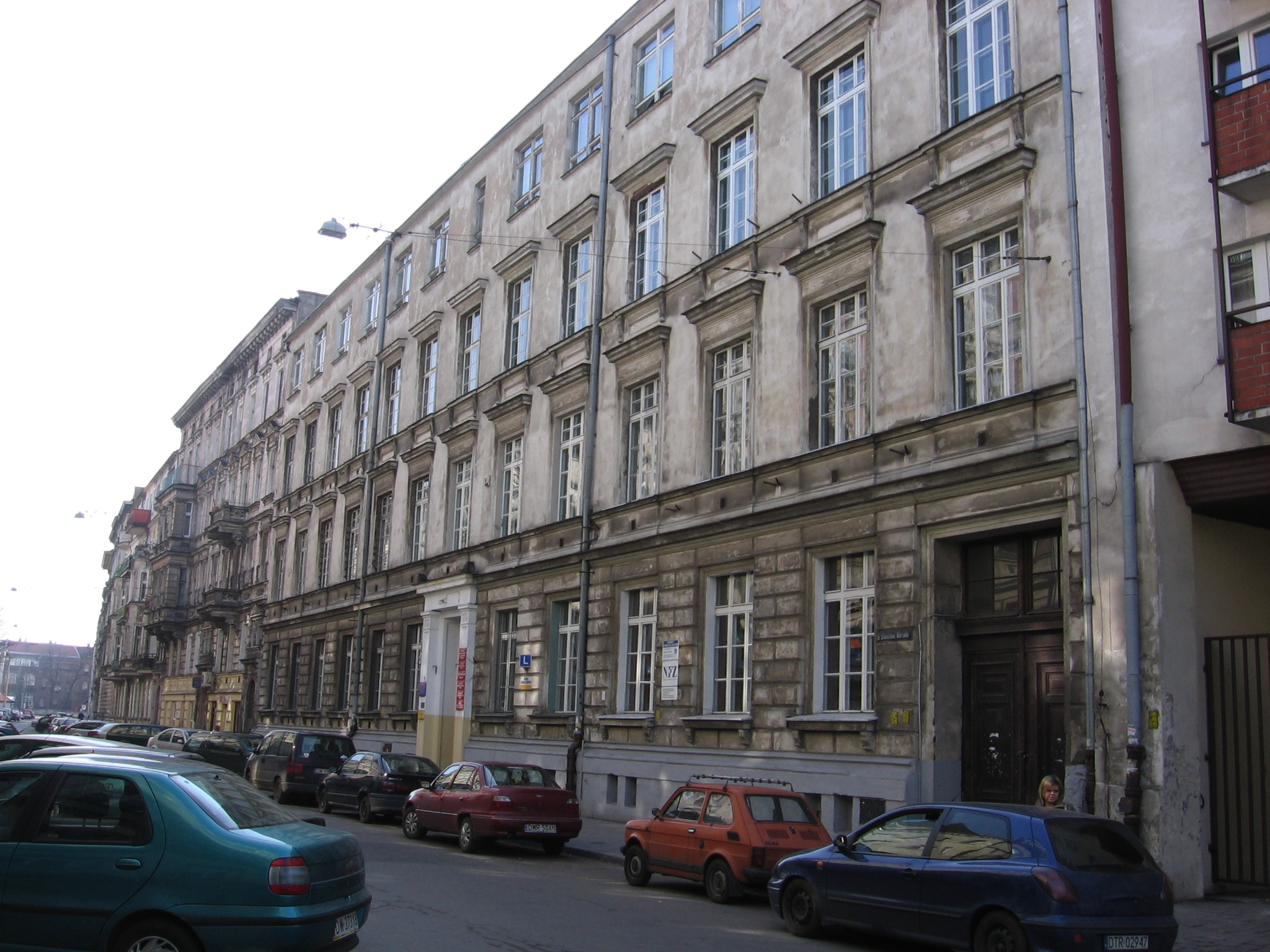 C. J. Ch. Zimmermann, former St. John's Secondary School in Wroclaw, Worcella St. 3, built 1865. Neorenaissance. In 20th century extended with 4th story.